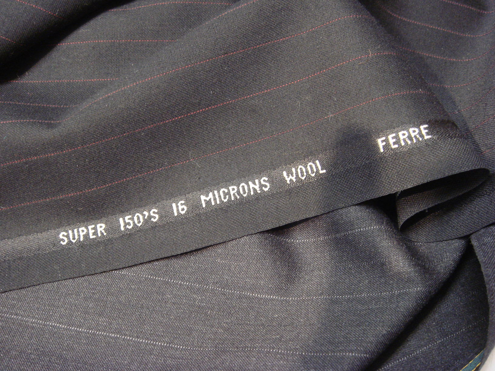 wool fabric super 150's